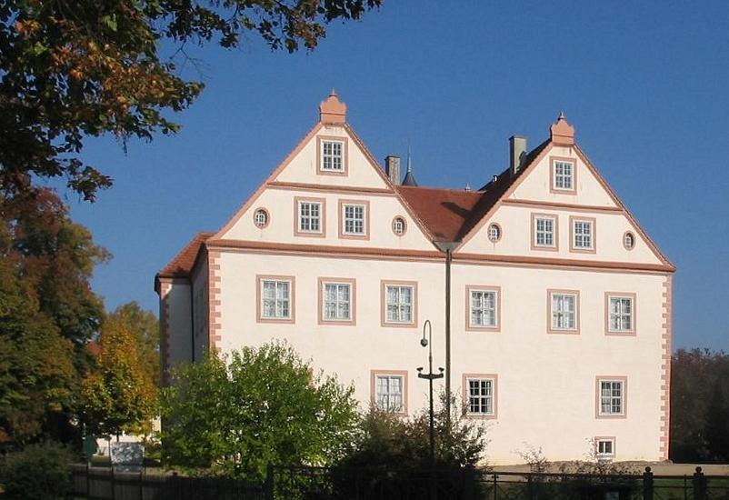 Schloss Königs Wusterhausen. It is a renaissance-castle in Königs Wusterhausen, a town in the north of the district Dahme-Spreewald in Brandenburg, Germany. The castle was built in the 16th century and was used by Frederick William I of Prussia as hunting lodge.